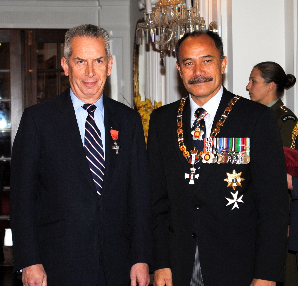 Terry Smith (left), after his investiture as MNZM for services to New Zealand–United Kingdom relations, by the governor-general, Sir Jerry Mateparae, on 1 May 2012. Smith led the campaign and was the principal funder for a memorial to Sir Keith Park to be erected in London.